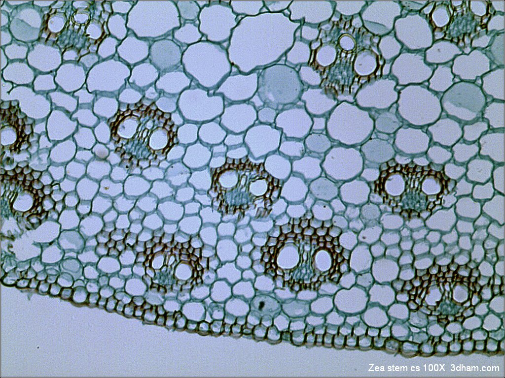 This bright-field micrograph shows a cross section of Zea stem, magnified 100×.